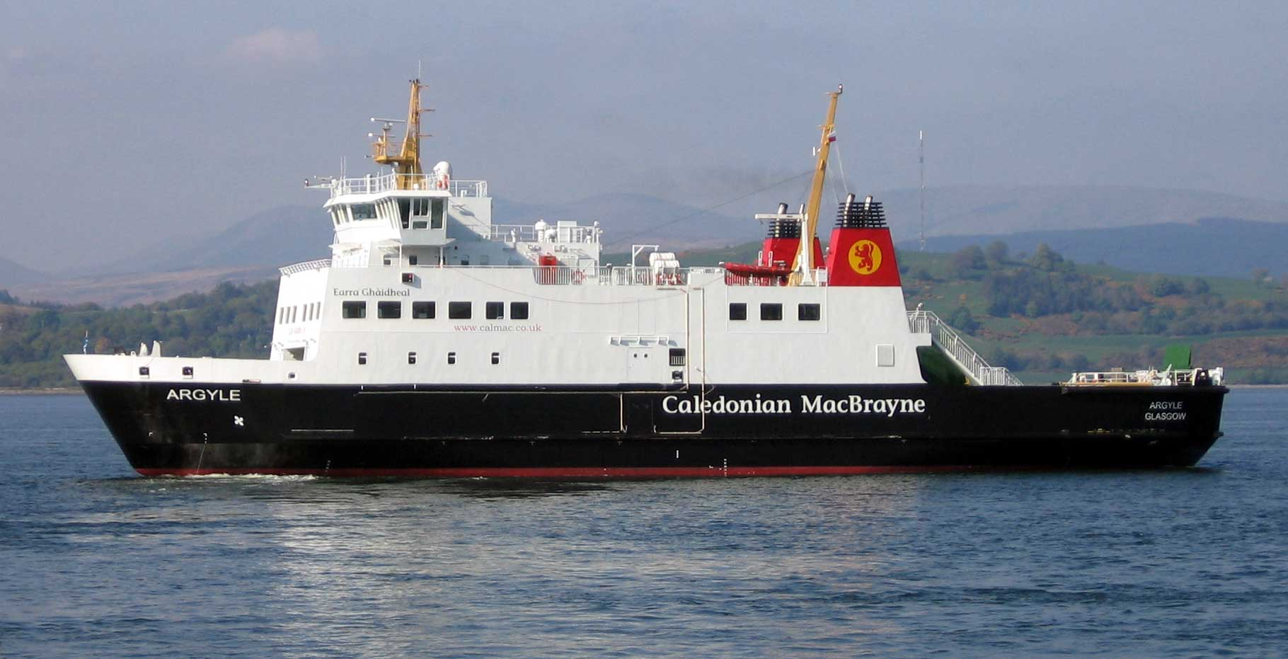 The Caledonian MacBrayne ferry MV Argyle off Gourock pierhead before entering service.